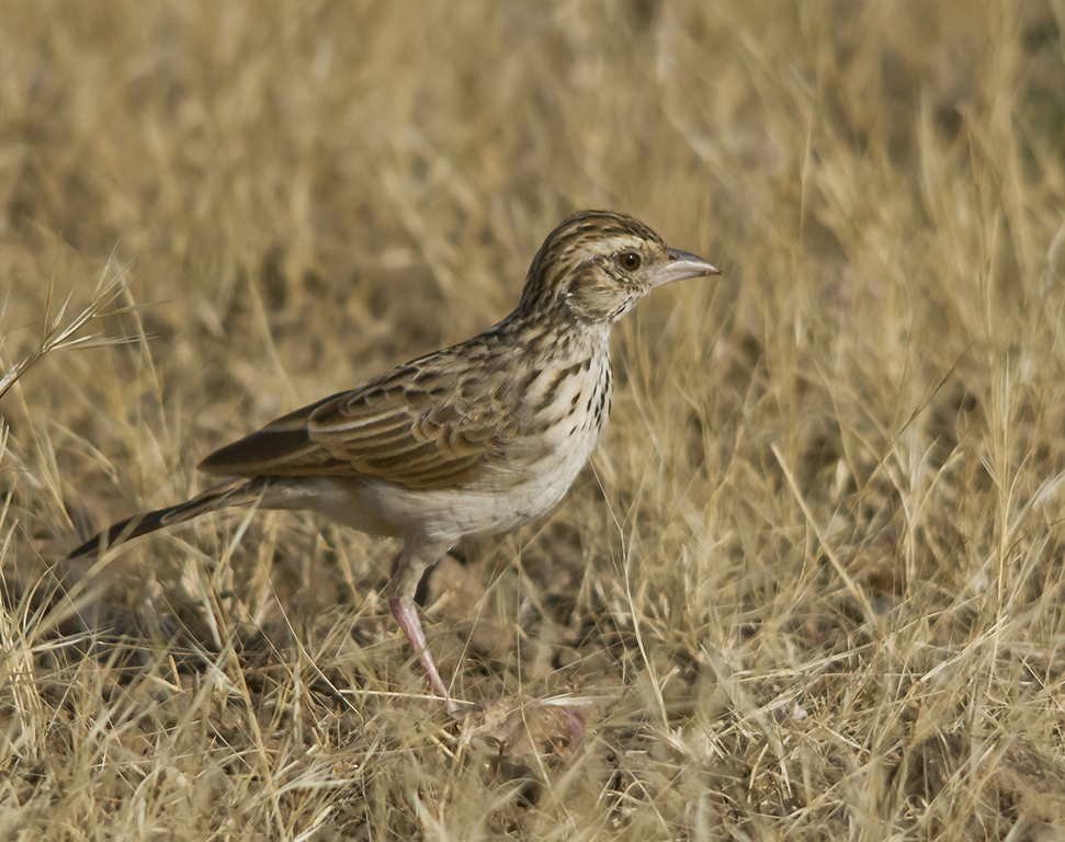 in Grassland